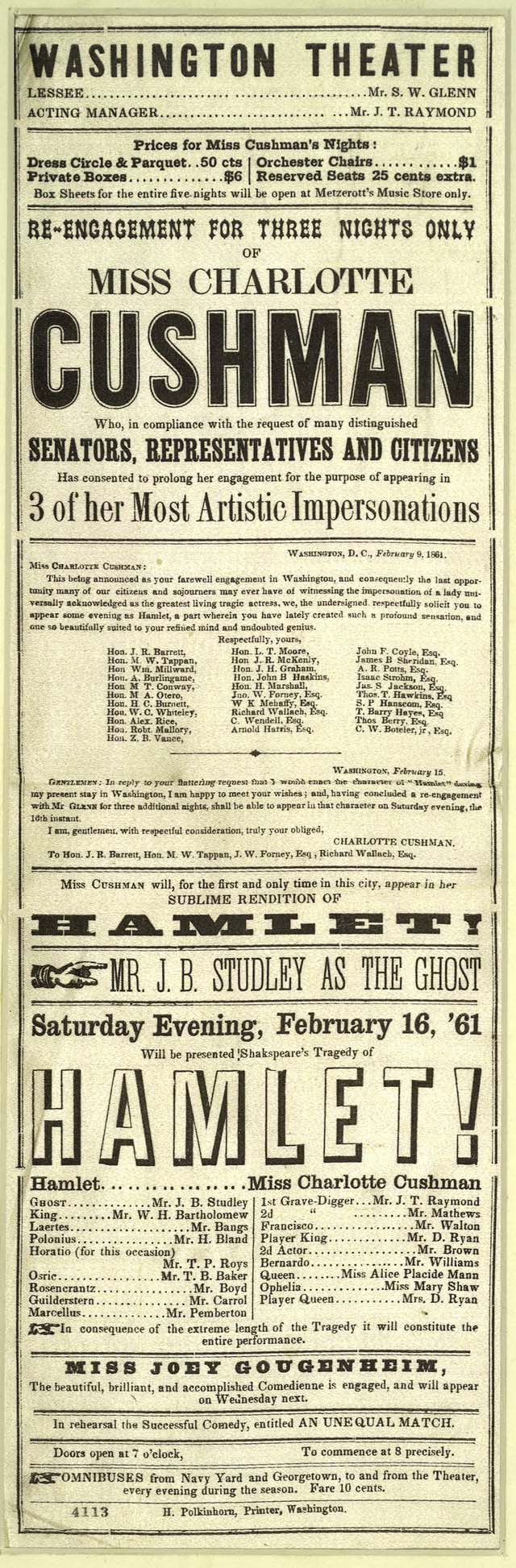 The American actress Charlotte Cushman advertised in William Shakespeare's Hamlet at the Washington Theater in 1861